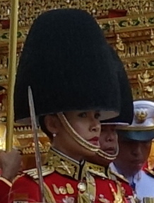 Sineenat Wongvajirapakdi, taking part in the first procession of the late King Bhumibol Adulyadej's royal cremation ceremony on 26 October 2017